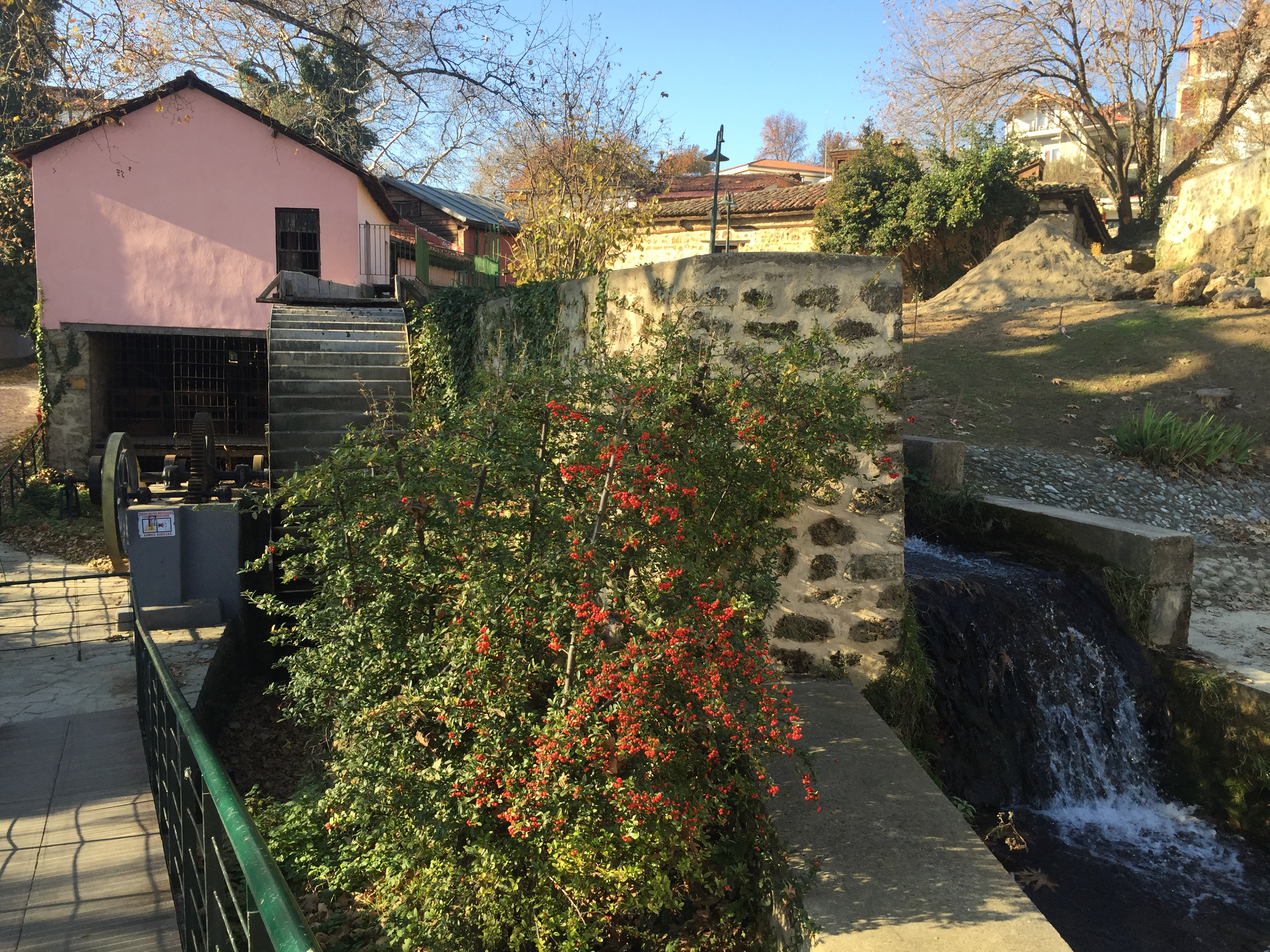 Edessa Watermills